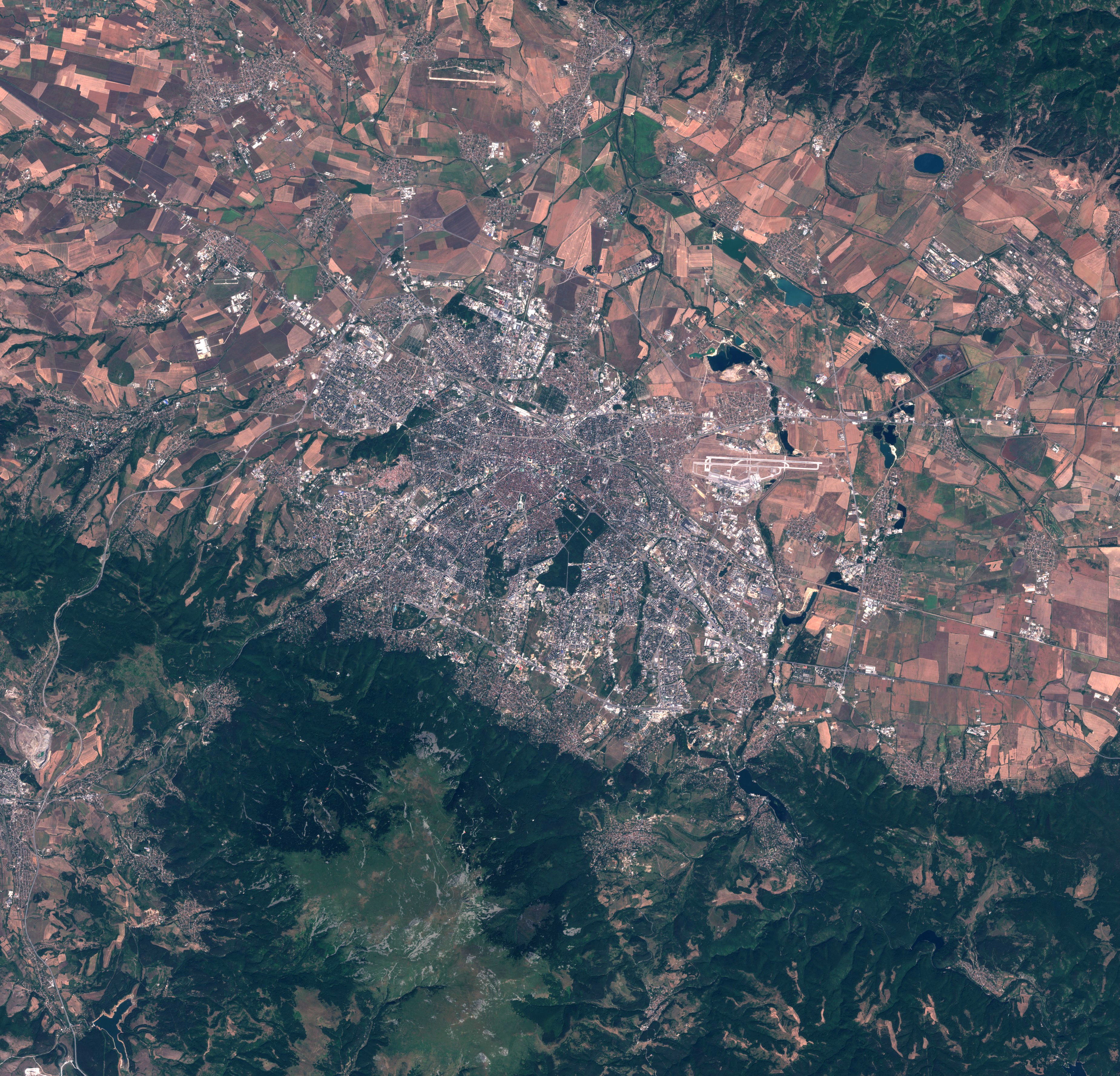 Sofia, Bulgaria as seen by Sentinel-2 satellite, 1 September 2019